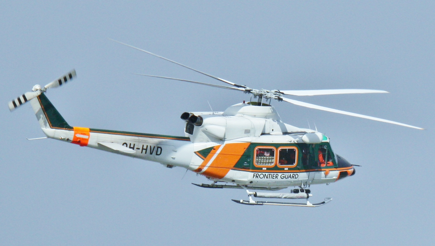 Rescue helicopter of Finnish Frontier Guard. Model Agusta Bell AB-412